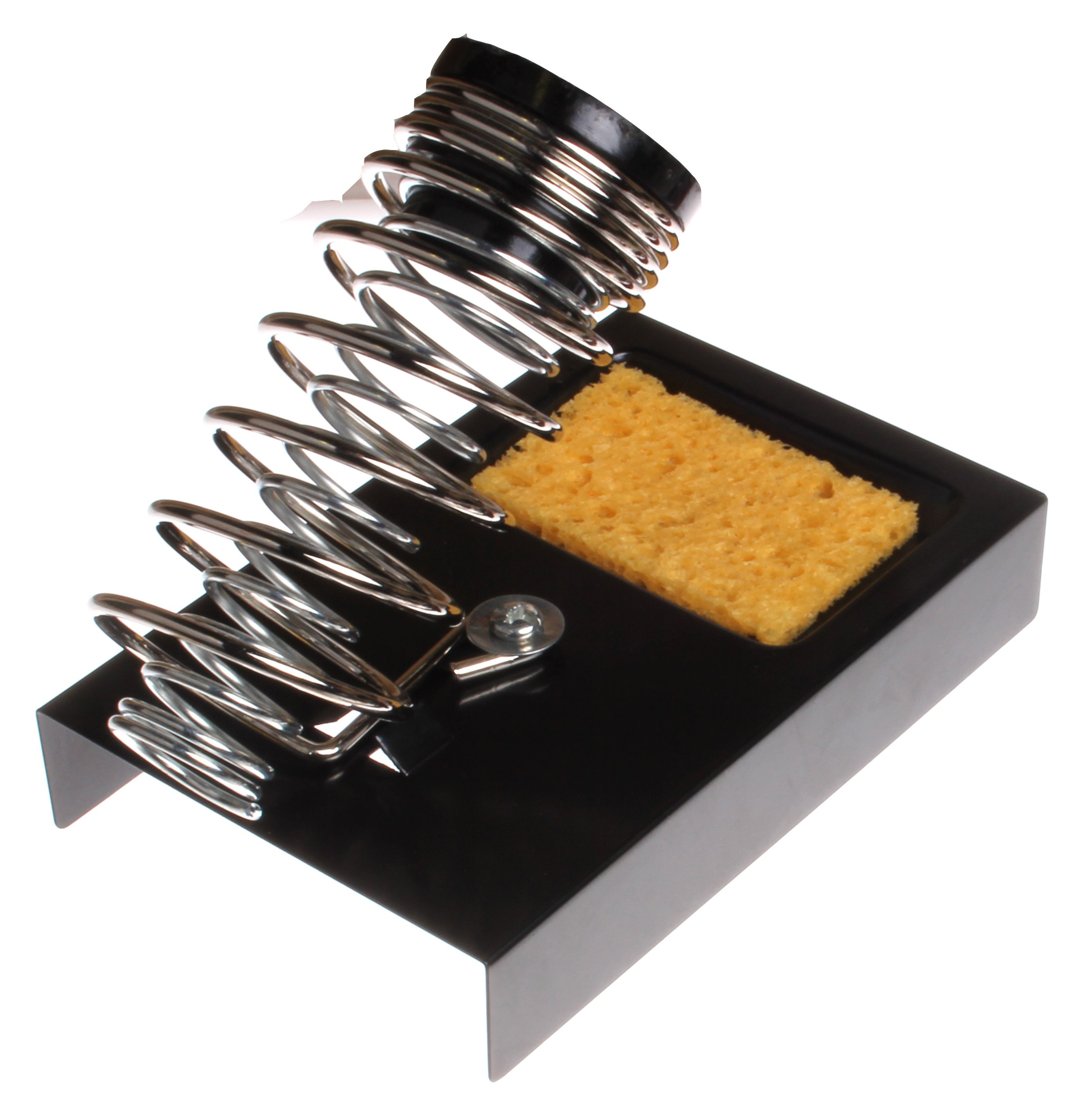 Soldering Iron Stand.